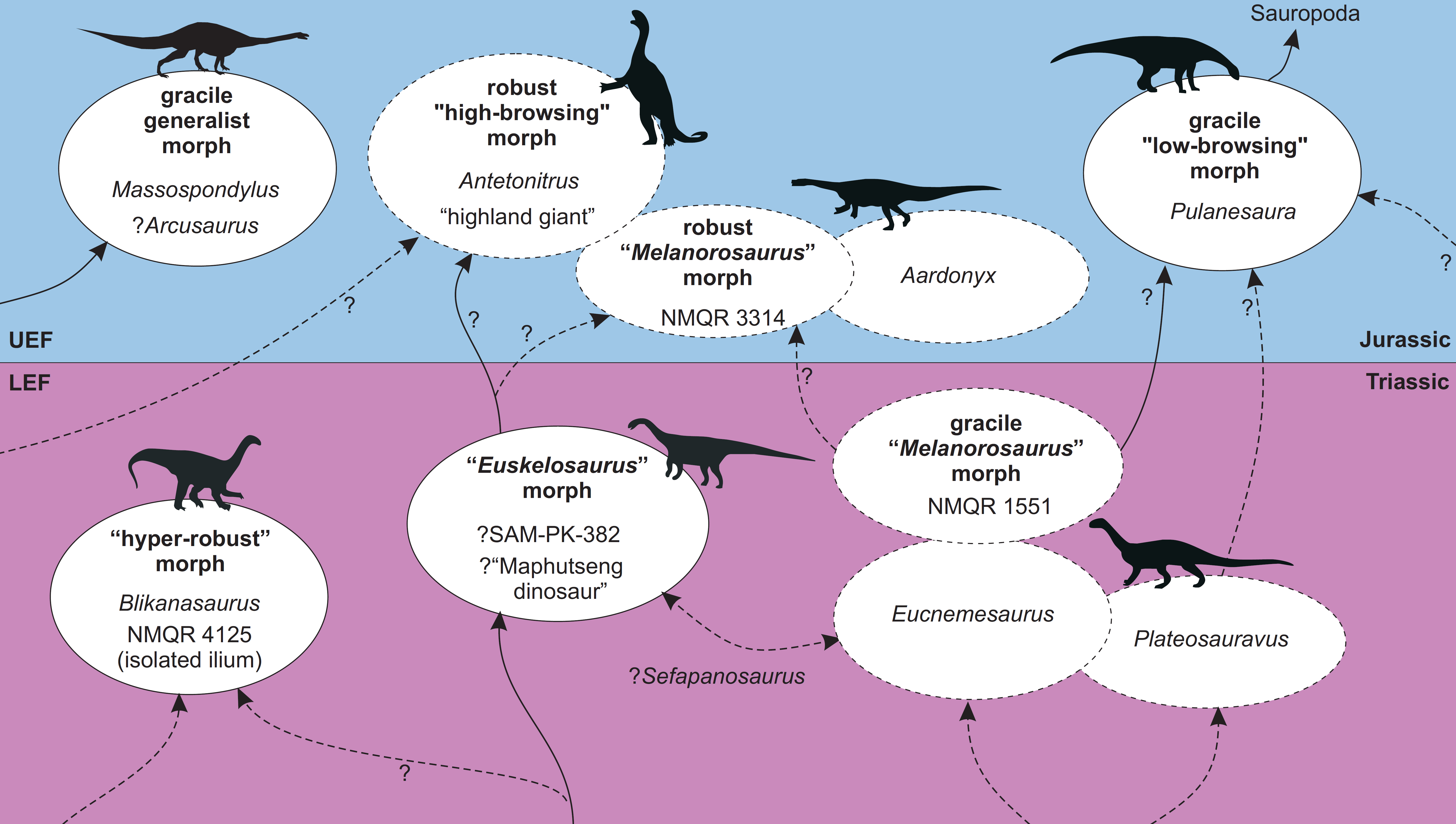 Schematic representation of hypothetical ecomorphotype groupings and population dynamics of the sauropodomorph fauna of the Elliot Formation.